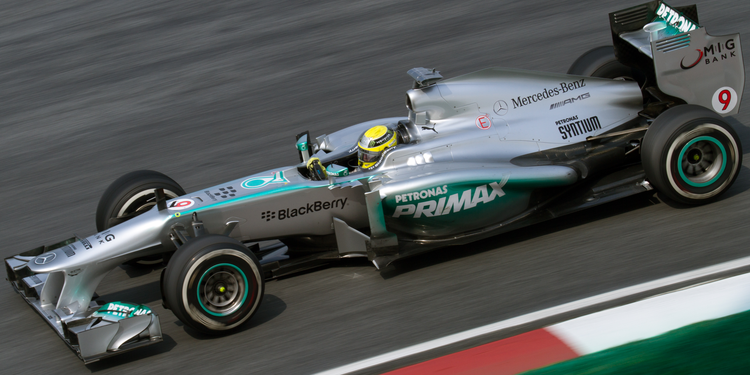 Formula One 2013 Rd.2 Malaysian GP: Nico Rosberg (Mercedes) during the second practice session on Friday.